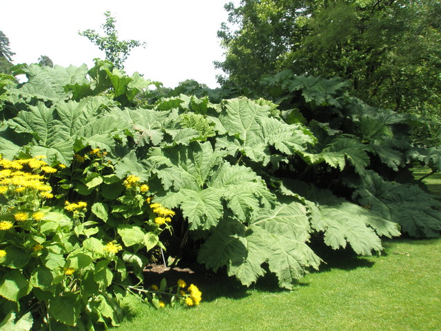 "Giant rhubarb" at RHS Wisley This one plant generated the most amazing creative writing in my Year Three class after our wonderful trip here.